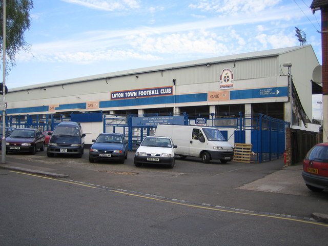 Luton: Kenilworth Road. The Kenilworth Road stand at Luton Town Football Club, at the opposite end of the ground to the Oak Road end. 193045